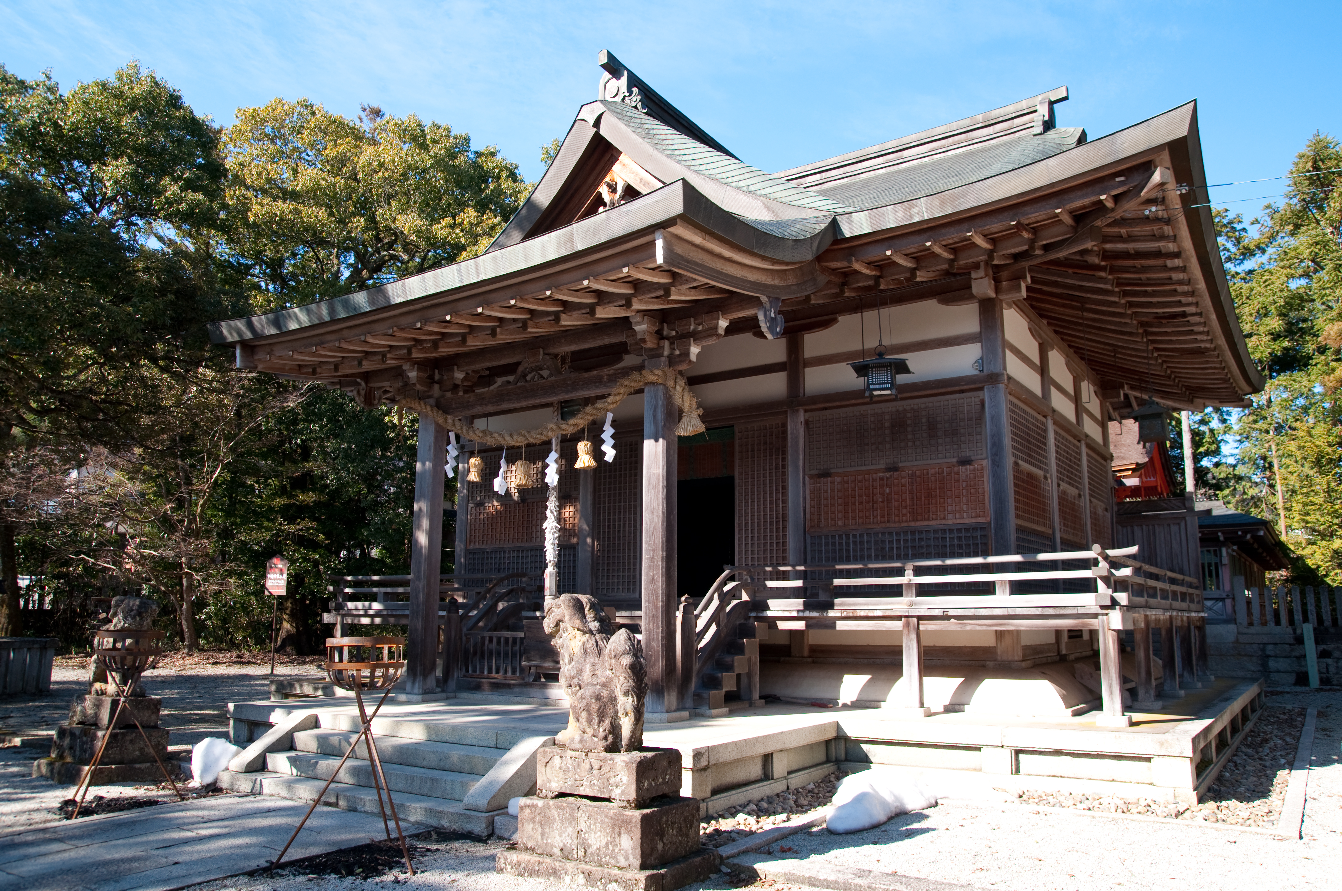 This is a "Haiden" of the Nakashima Jinjya.